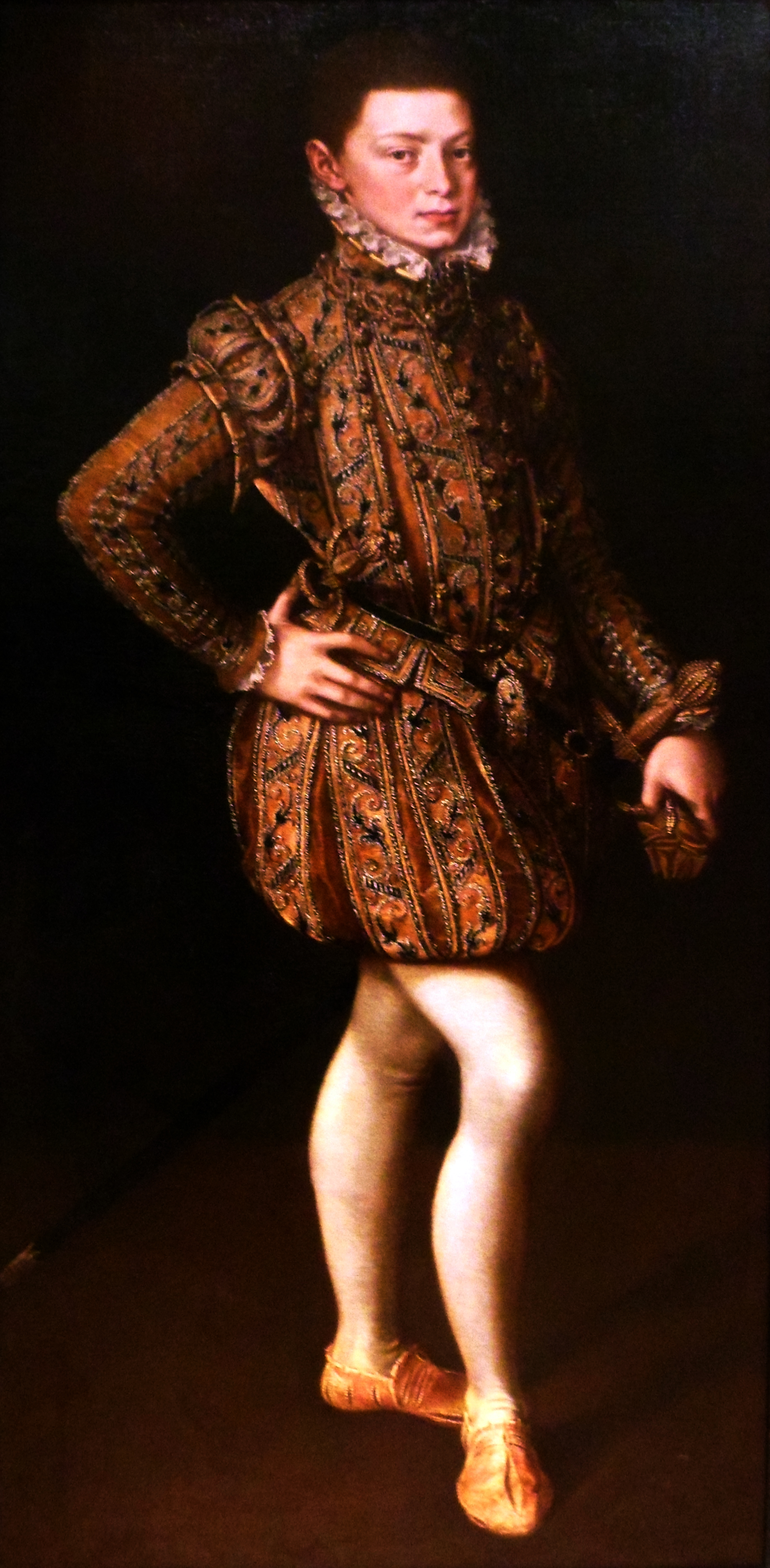 Portrait of Juan de Austria